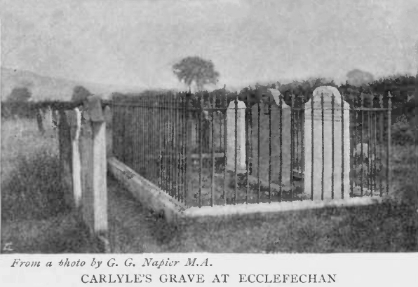 Thomas Carlyle's grave at Ecclefechan